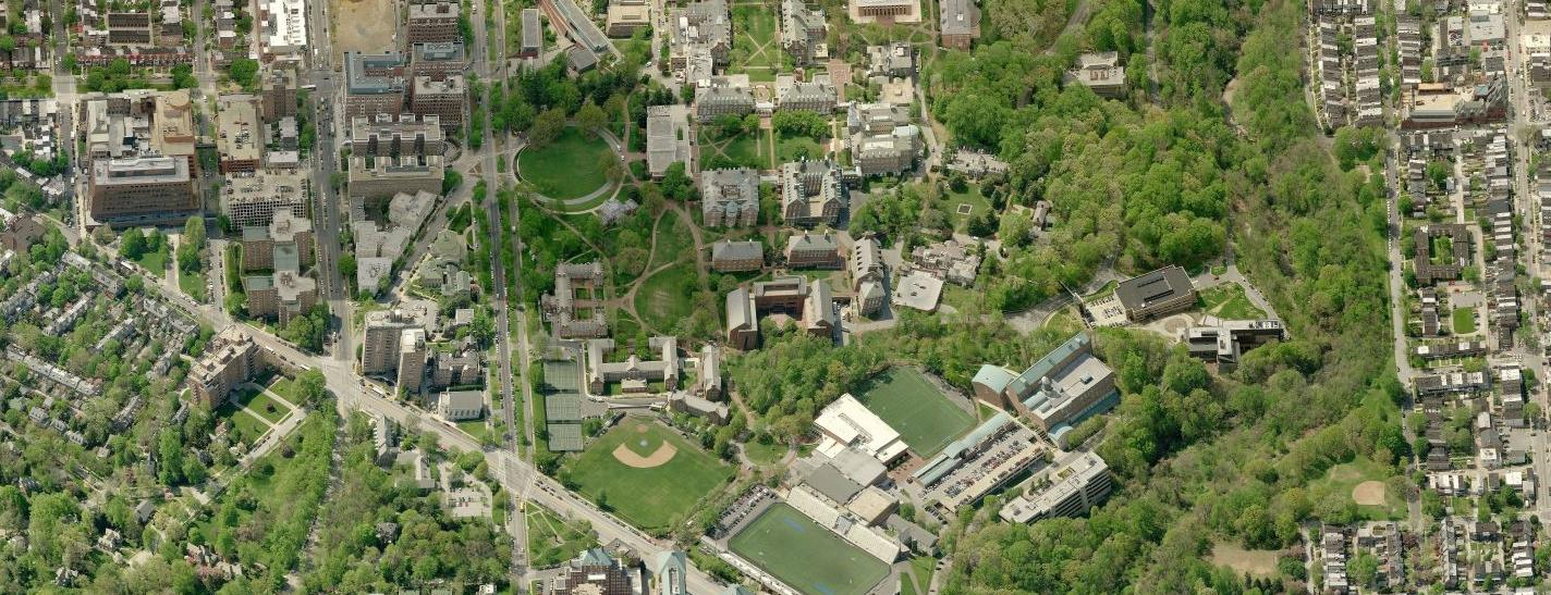 Aerial View of Johns Hopkins Campus. Digital SLR from Helicopter.